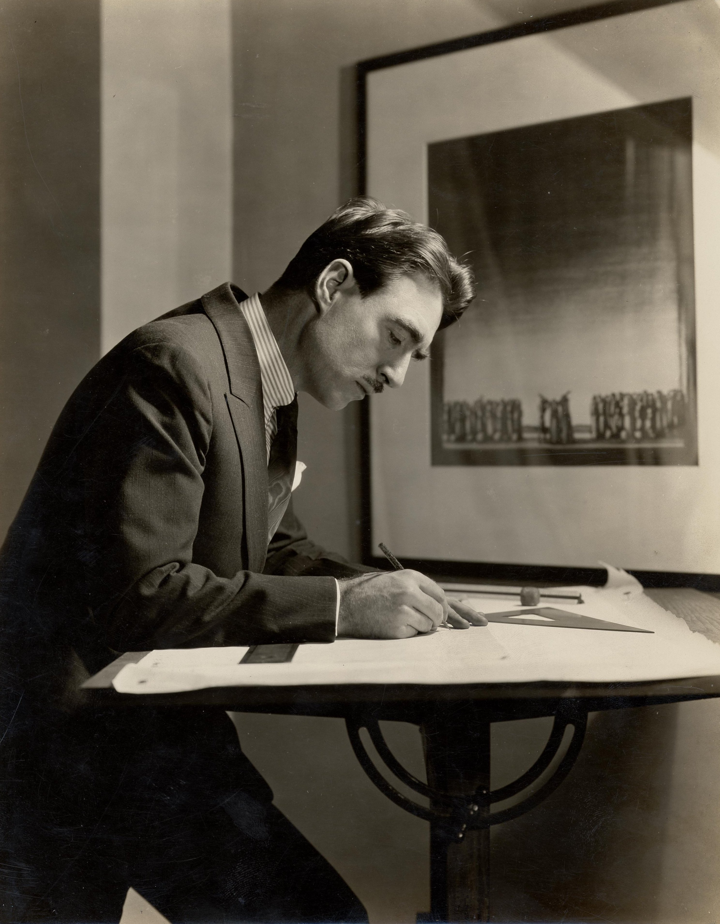 Jones, in suit, drawing at a waist high table.